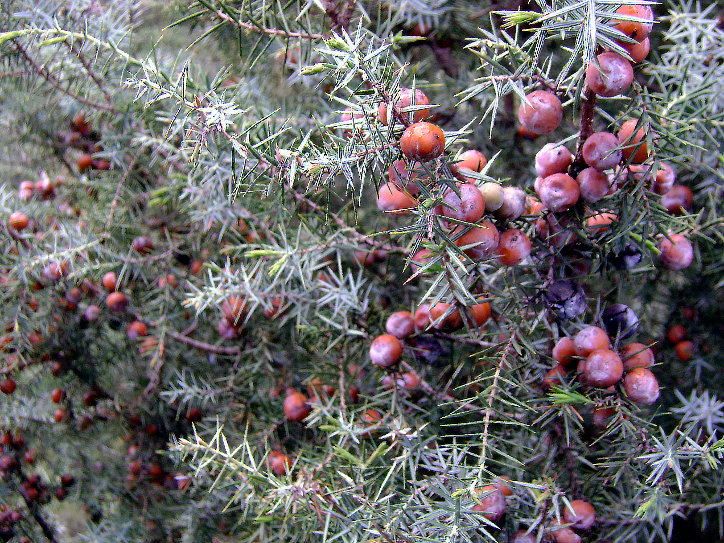 Juniperus oxycedrus subsp. badia, mature seed cones, Sierra Madrona, Spain